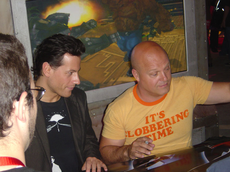 Ioan Gruffudd and Michael Chiklis, actors of the Fantastic Four movies.